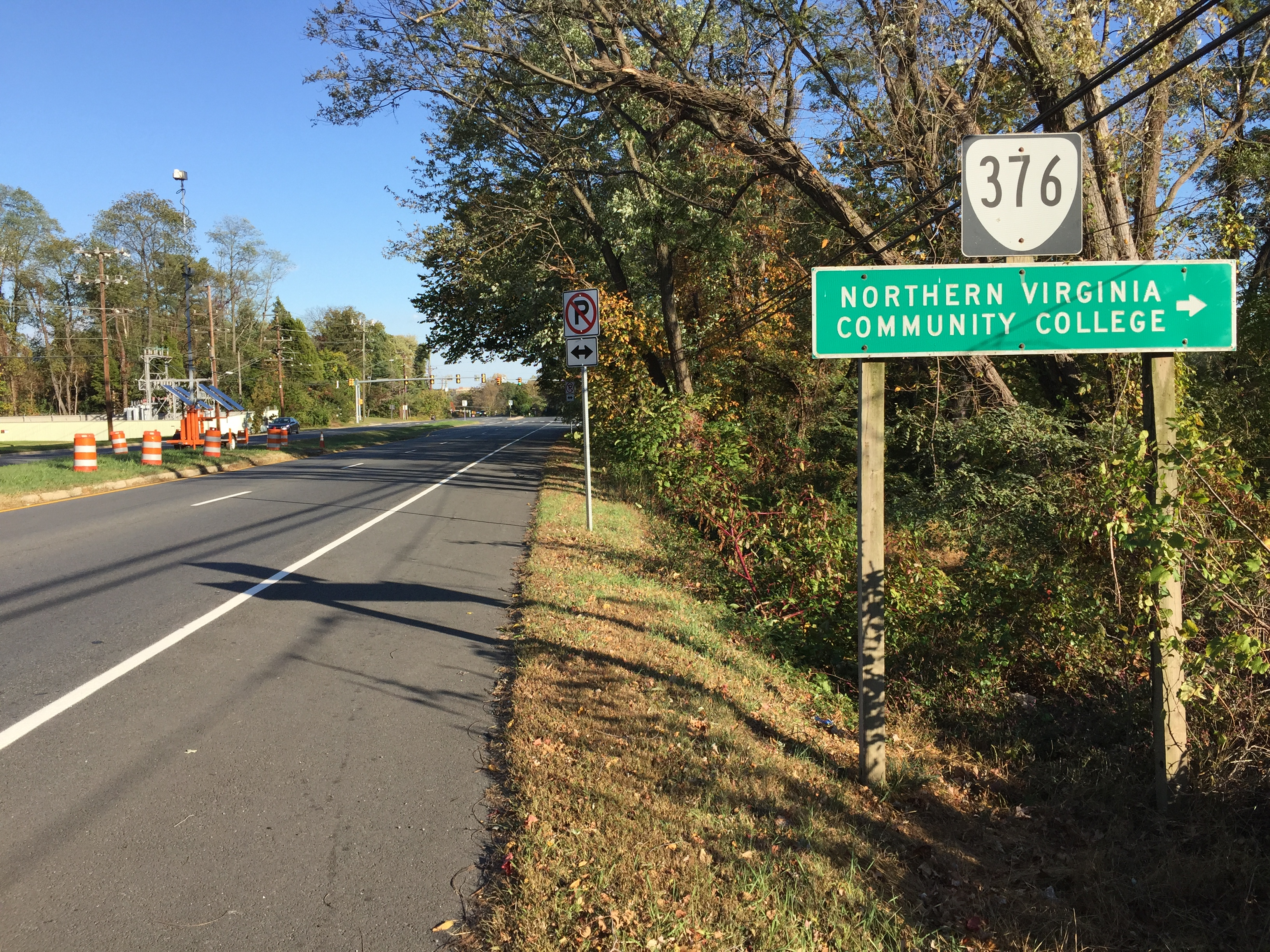 View east along Virginia State Route 236 (Little River Turnpike) just west of Virginia State Route 376 (Lake Drive) at the Northern Virginia Community College Annandale Campus in Wakefield, Fairfax County, Virginia